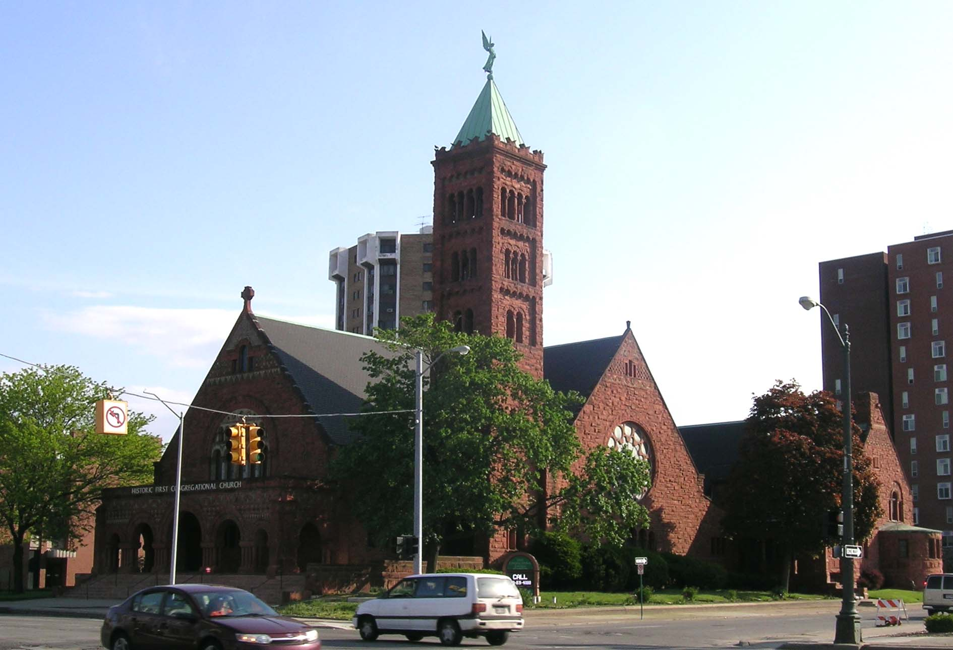 First Congregational Church — on Woodward Avenue in Midtown Detroit, Michigan. A Romanesque revival style red limestone building built in 1891. The First Congregational Church is a Michigan State Historic Site, a contributing property to the multiple property submission (MPS) Religious Structures of Woodward Avenue Thematic Resource, and on the National Register of Historic Places.